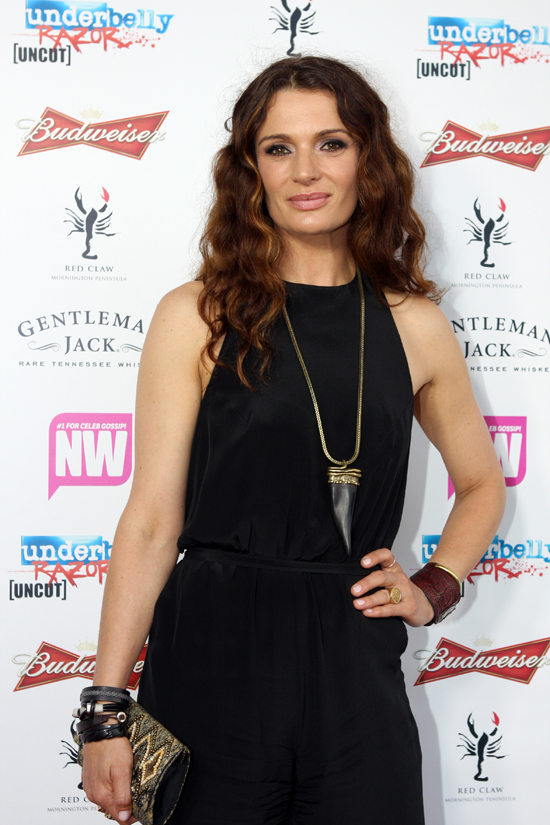 Underbelly Razor DVD Party At East Village Surry Hills Tonight saw some of Sydney's most interesting people, including media types, returning to the scene of many a crime from the original Underbelly 1920's and 30's - The Tradesman's (these days known as The East Village Hotel.)